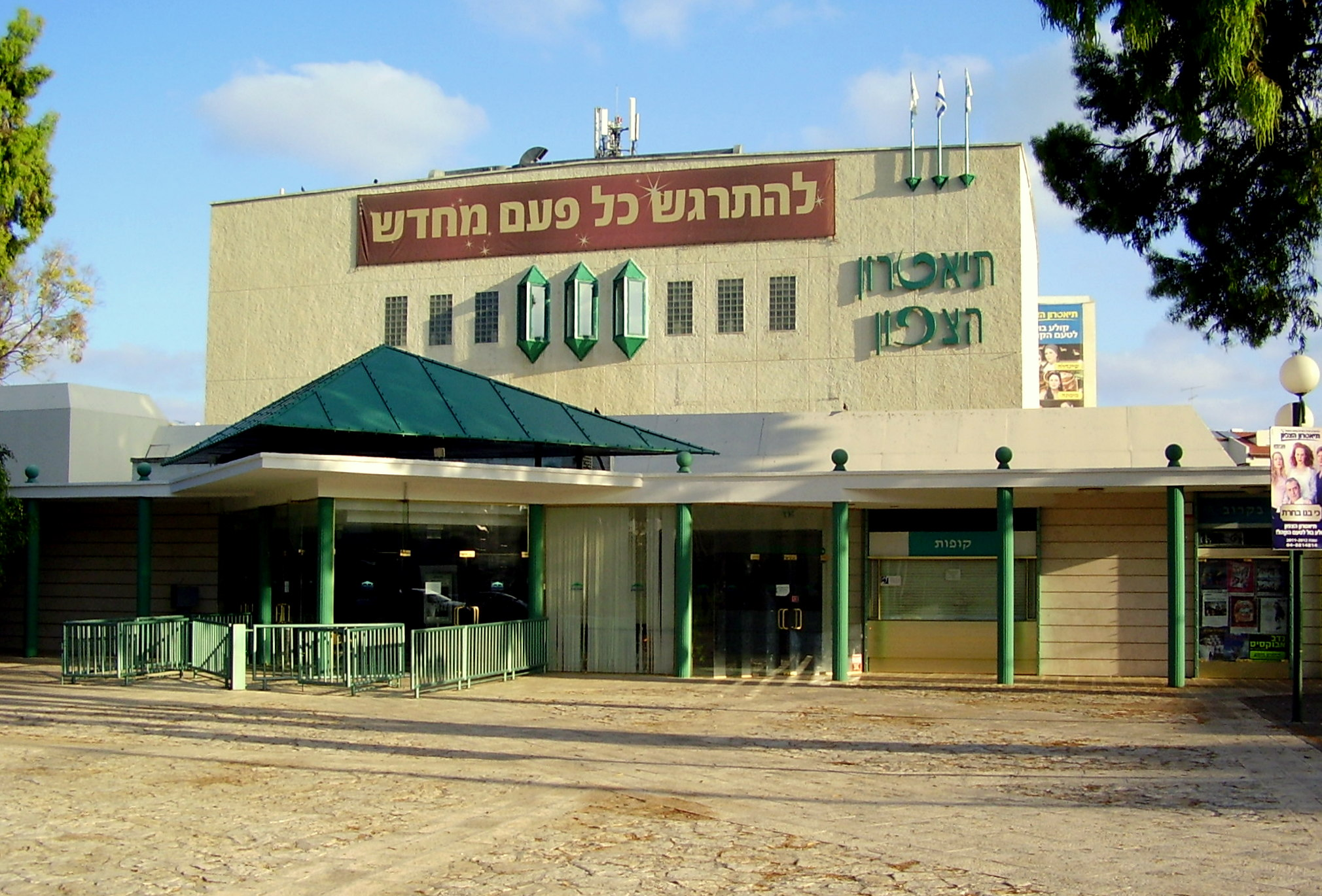 Northern Theatre, Kiryat Haim